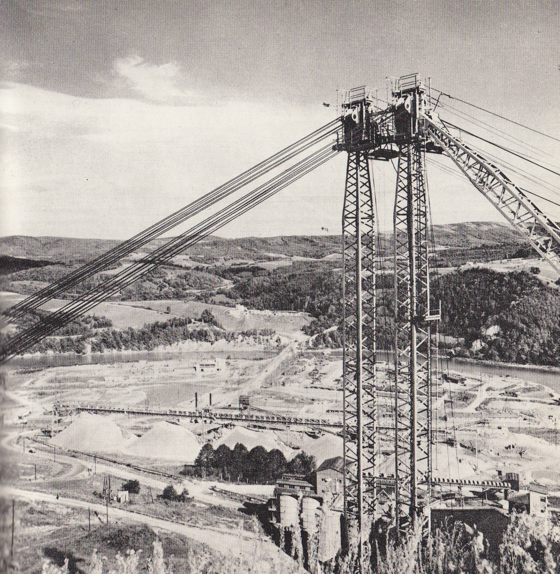 Construction site of Solina dam